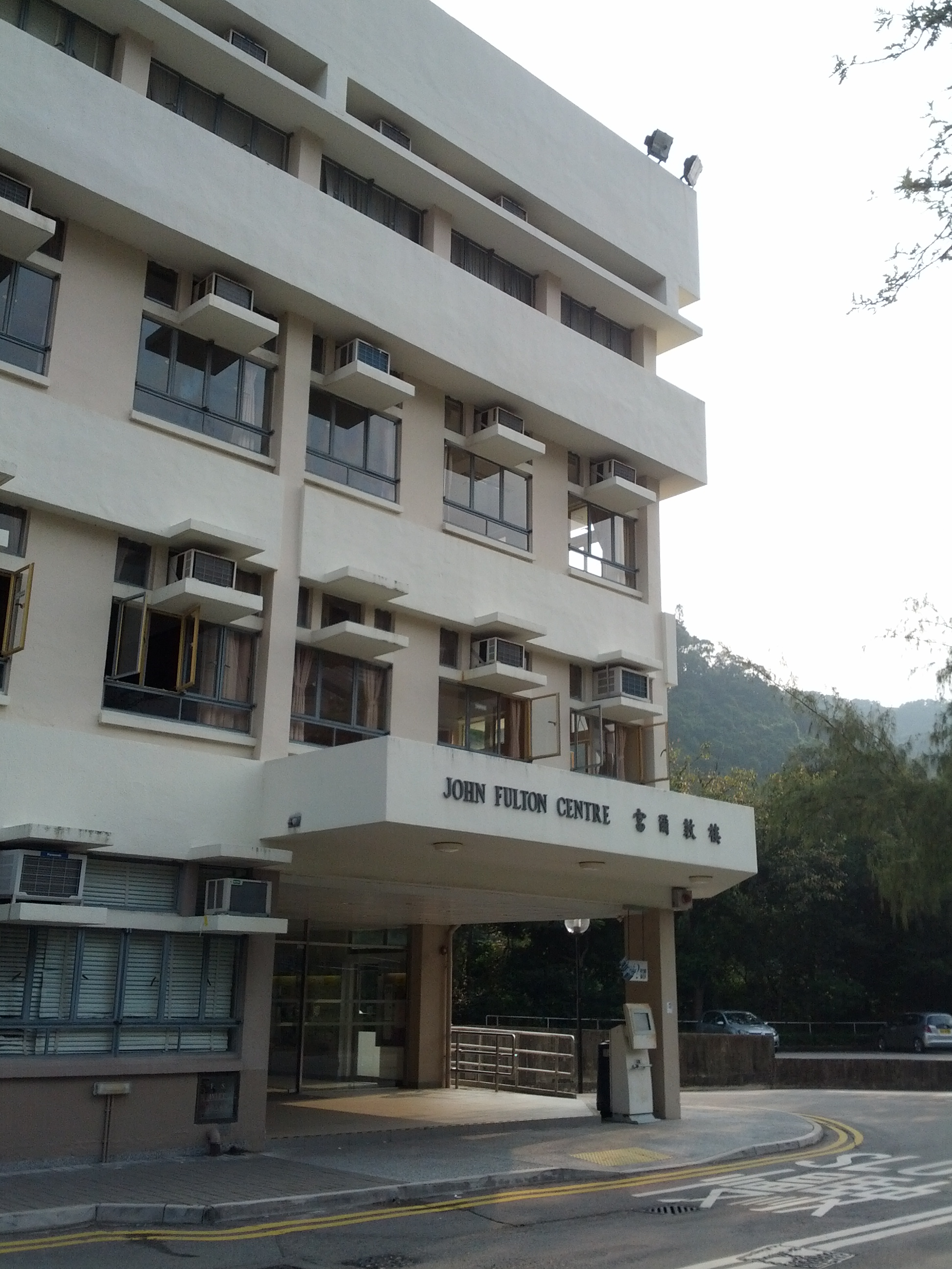 John Fulton Building, named after Lord Fulton at the campus of the Chinese University of Hong Kong. 中文（香港）: 位於香港中文大學的富爾敦樓以富爾敦勳爵命名。